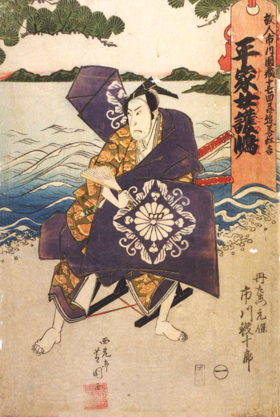 “Ebijūrō Ichikawa I as Tanzaemon Motoyasu” in the September 1824 production of Heike Nyōgo-ga-shima at Osaka Sumi-za, by Shibakuni Saikōtei